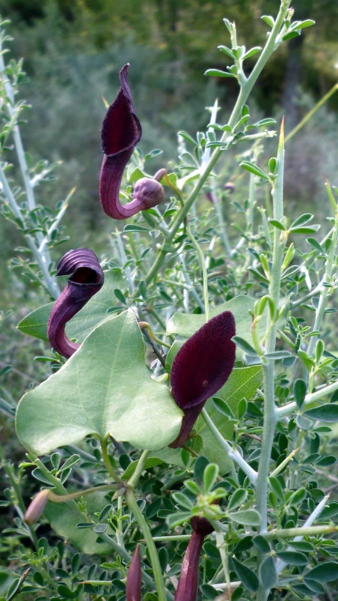 Aristolochia baetica over Calicotome intermedia in Roldán Mountain(Cartagena, Spain)